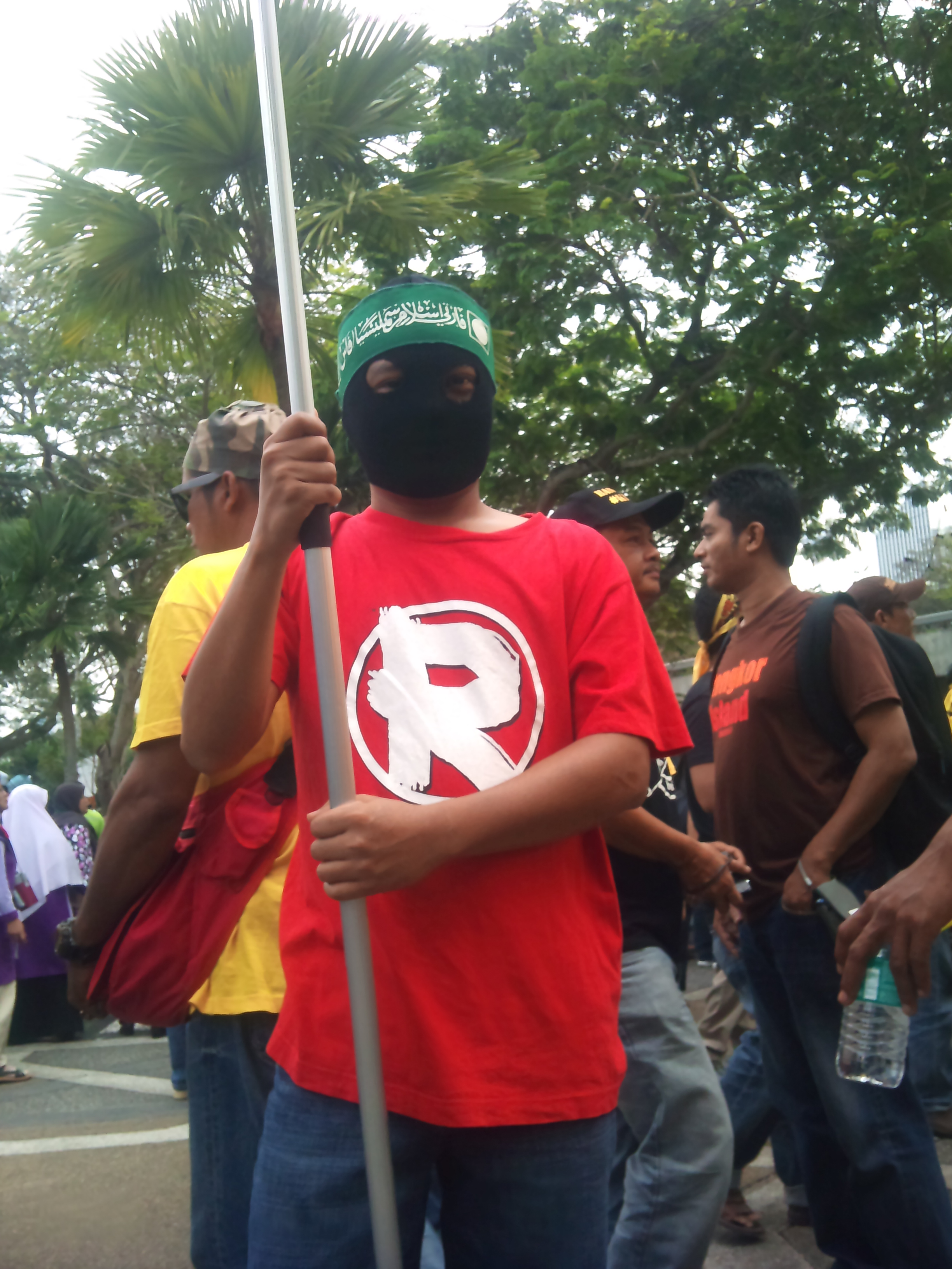 Representing Al-Qaeda